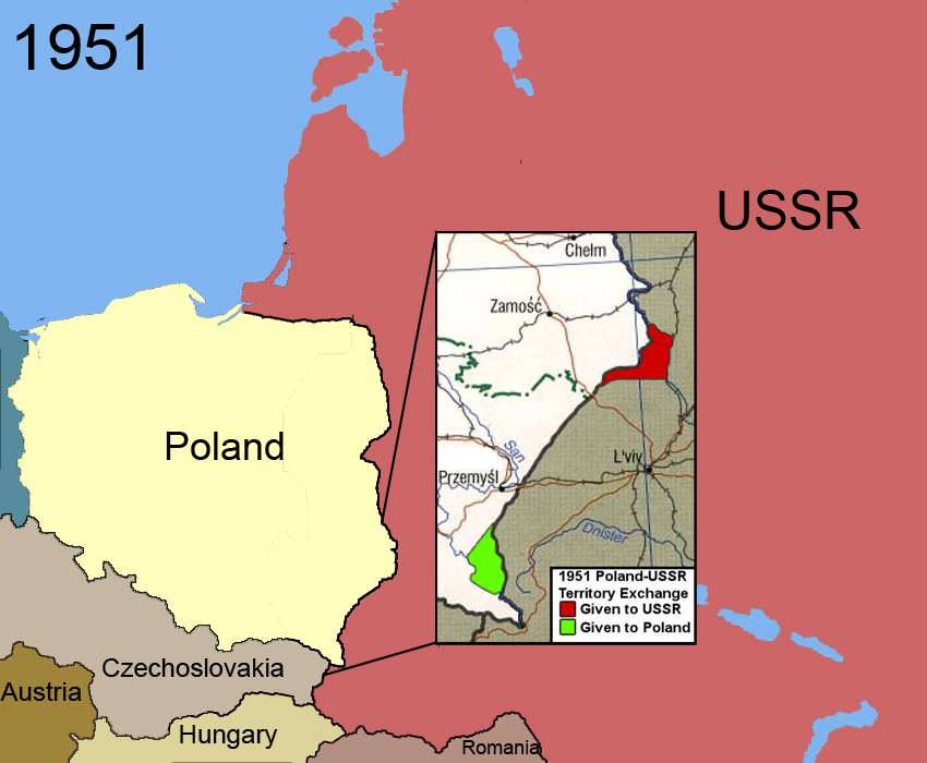 Poland 1951